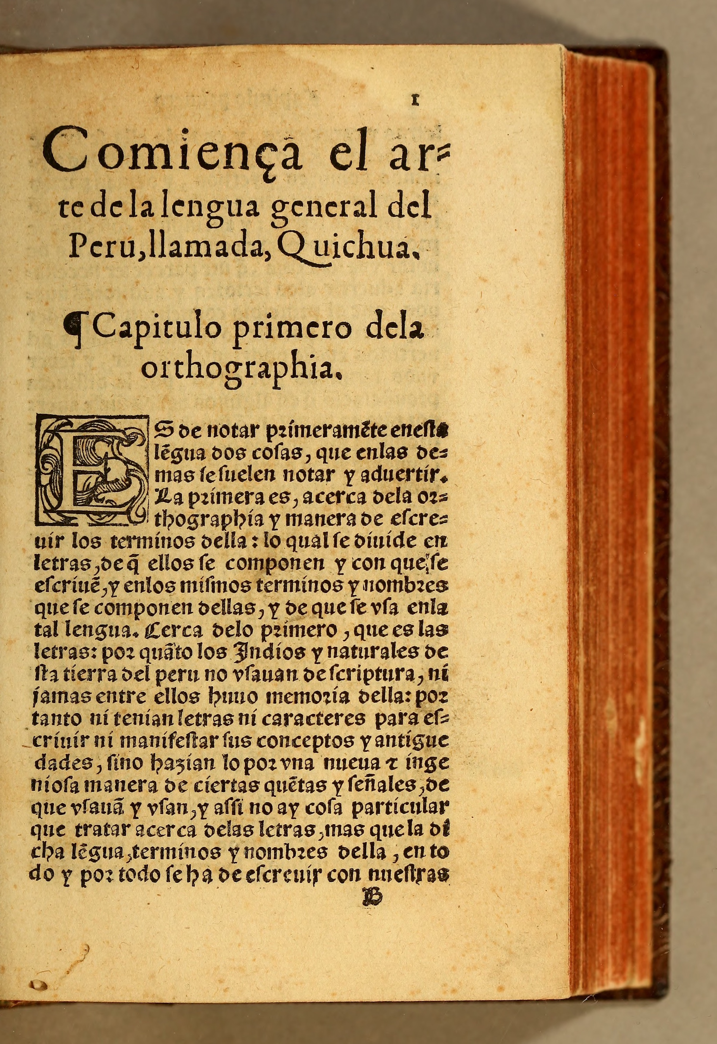 First page of chapter one from Domingo de Santo Tomás' Grammatica, o Arte de la lengua general de los Indios de los reynos del Peru (Valladolid, 1560)